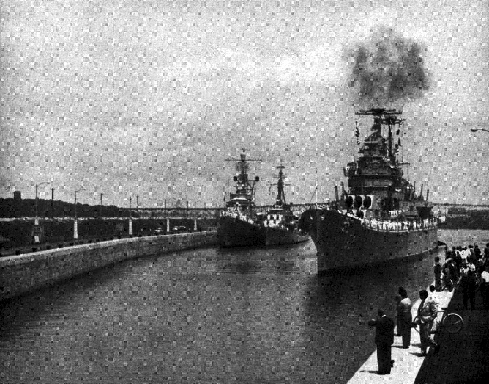 The U.S. Navy destroyers USS Willis A. Lee (DL-4), USS Warrington (DD-843), and the heavy cruiser USS Macon (CA-132) at St. Lambert Lock, Quebec (Canada), circa 1959. The St. Lambert Lock is the most easterly lock in the St. Lawrence Seaway. Macon was the flagship of Task Force 47, a fleet of 28 ships, including 1500 Marines of the Second Battalion, Sixth Marines, and over a thousand midshipmen from the Naval Academy and NROTC colleges. This was the first time an armed Fleet had entered the Great Lakes in 142 years.